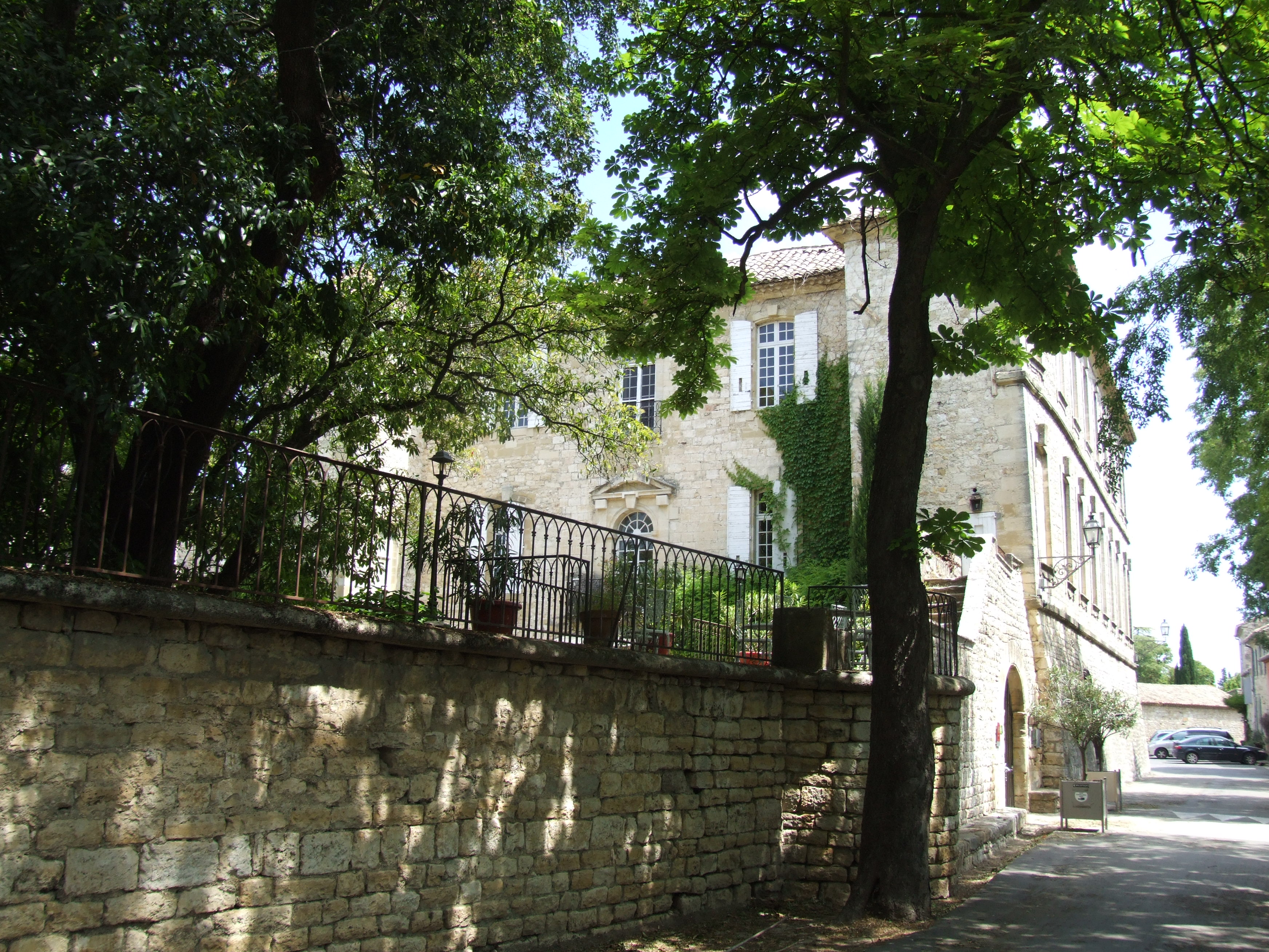 Castle of Arpaillargues-et-Aureillac, Gard, France